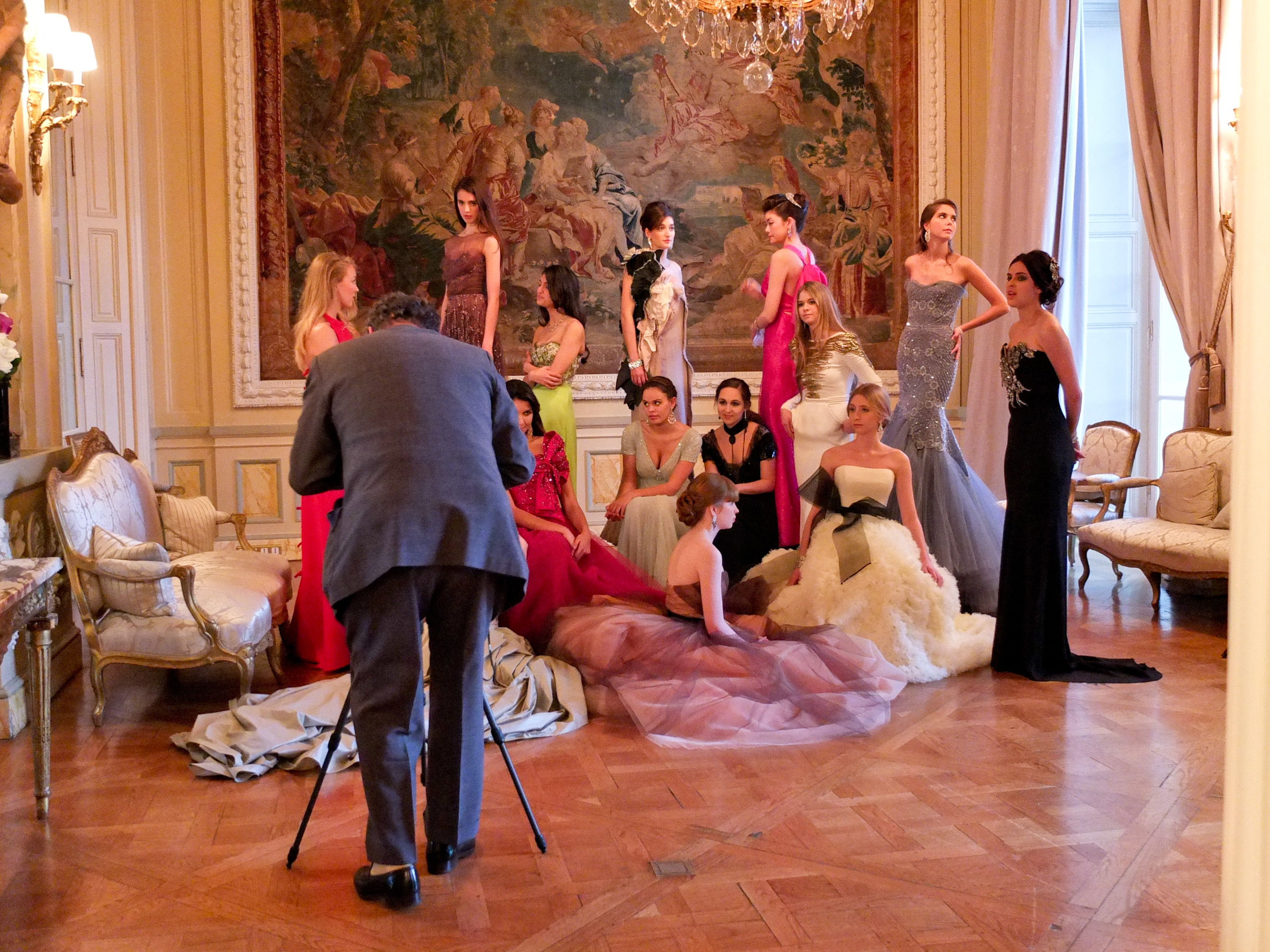 vanity fair photo shoot with the 2011 debs for le Bal des débutantes in Paris